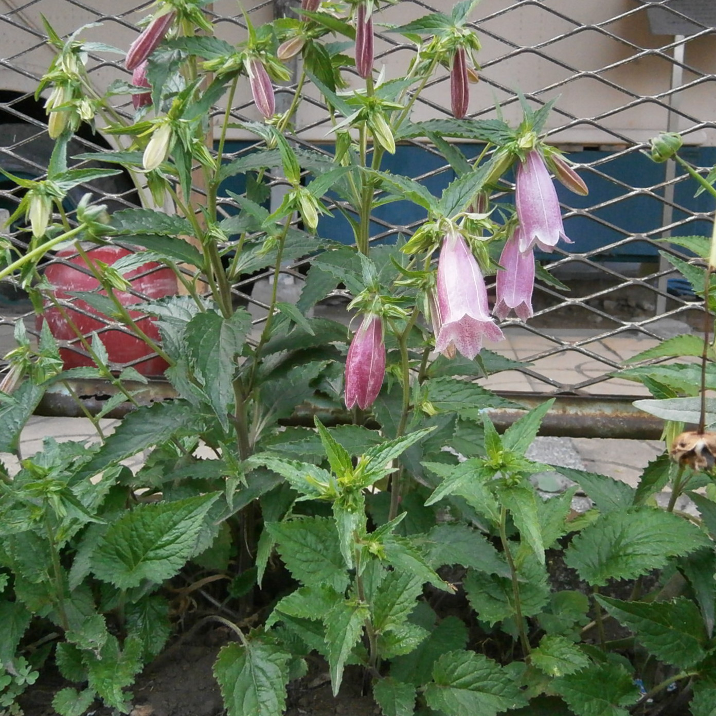 Campanula punctata